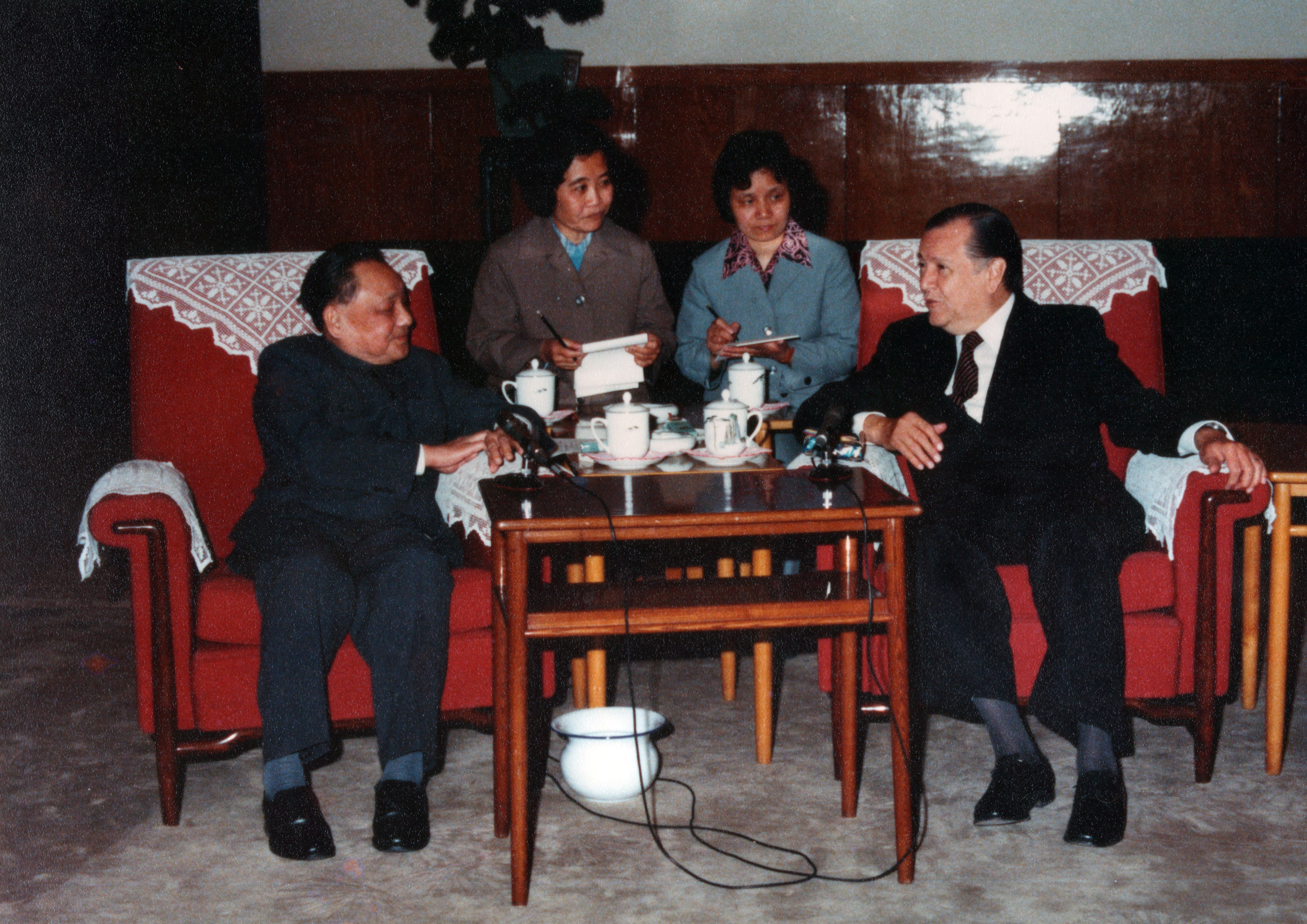 Meeting between Rafael Caldera and Prime Minister Deng Xiaoping, Beijing, China.